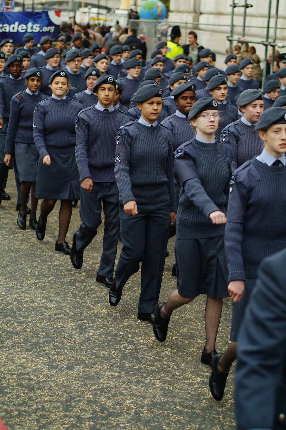 "Lord Mayor's Show" London 2006